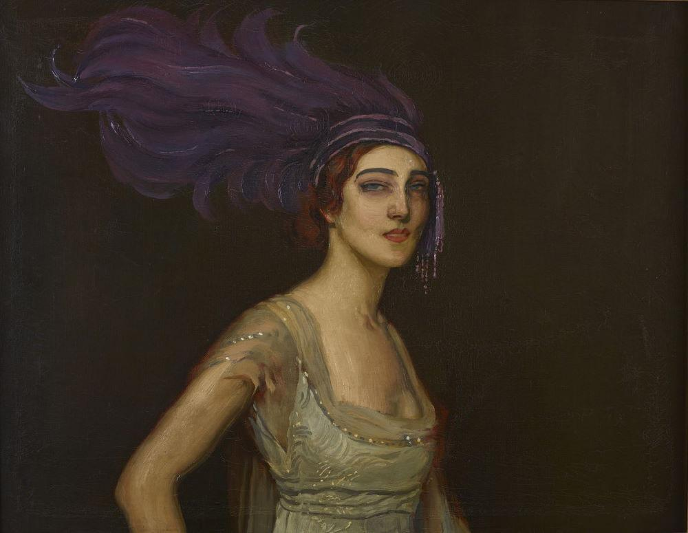 Ida Lvovna Rubinstein (5 October 1885 - 20 September 1960), ballet dancer